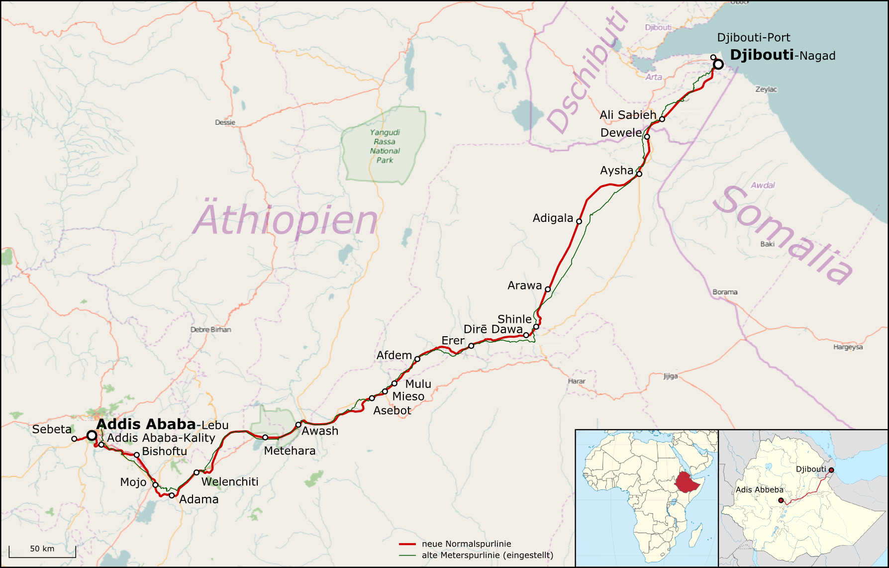 Map of Addis Ababa-Djibouti Railway.Standard Ggauge Railway to open in 2016 shown in red. Small green line for the disfunctional meter gauge railway.